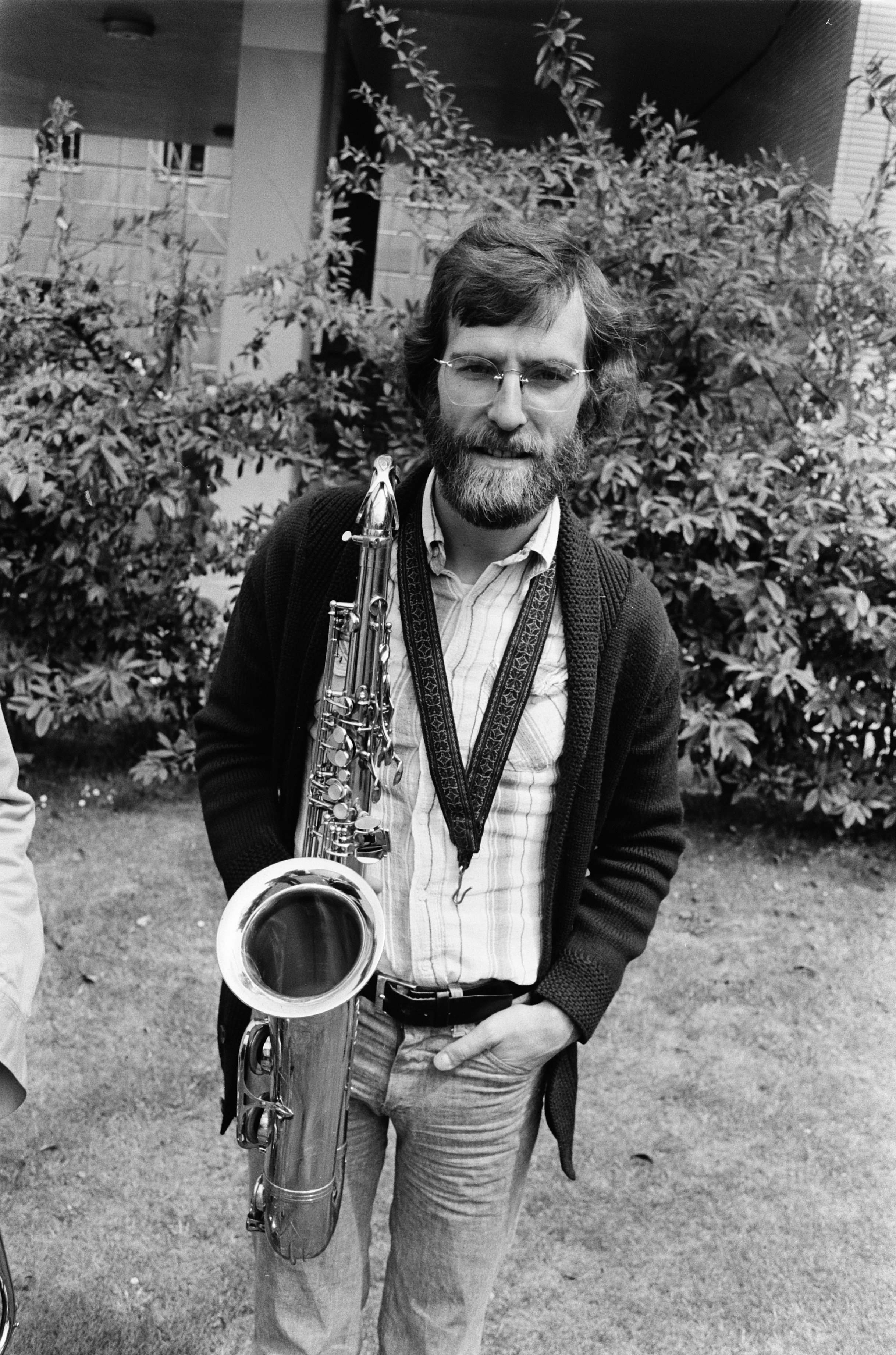 Ferdinand Povel, June 1975